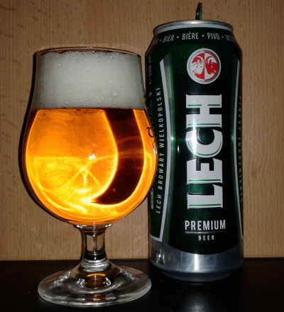 Lech Premium (.50 liter can + unrelated glass)